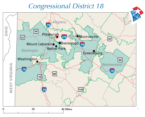 Cropped from